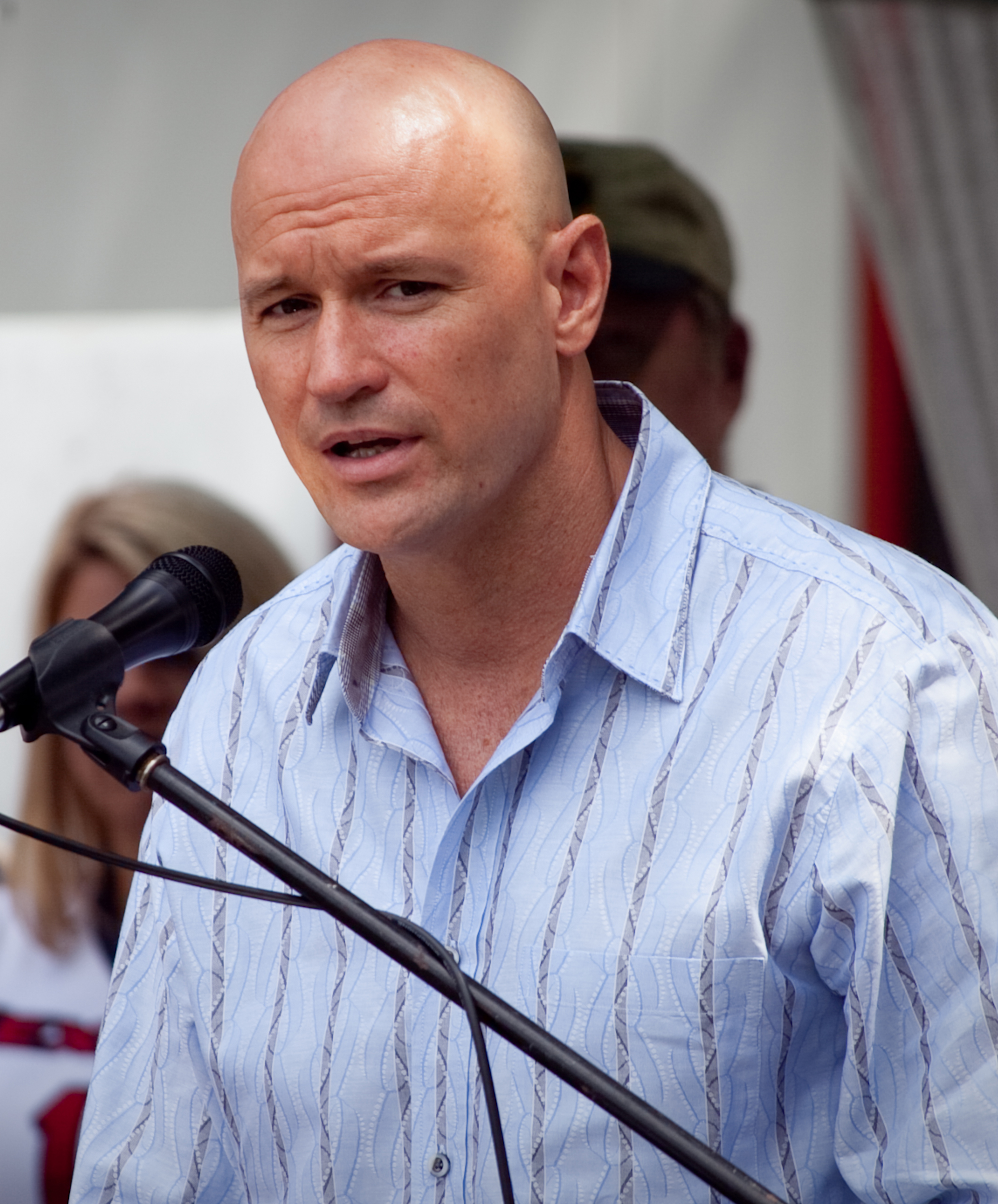 Richard Machowicz thanking U.S. troops for their service as part of the Wounded Warrior Program.